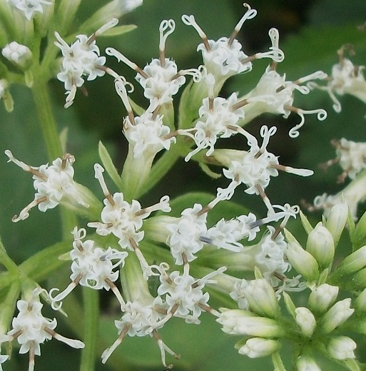 Flowers of Mikania natalensis from Amanzimtoti, KwaZulu-Natal, South Africa.